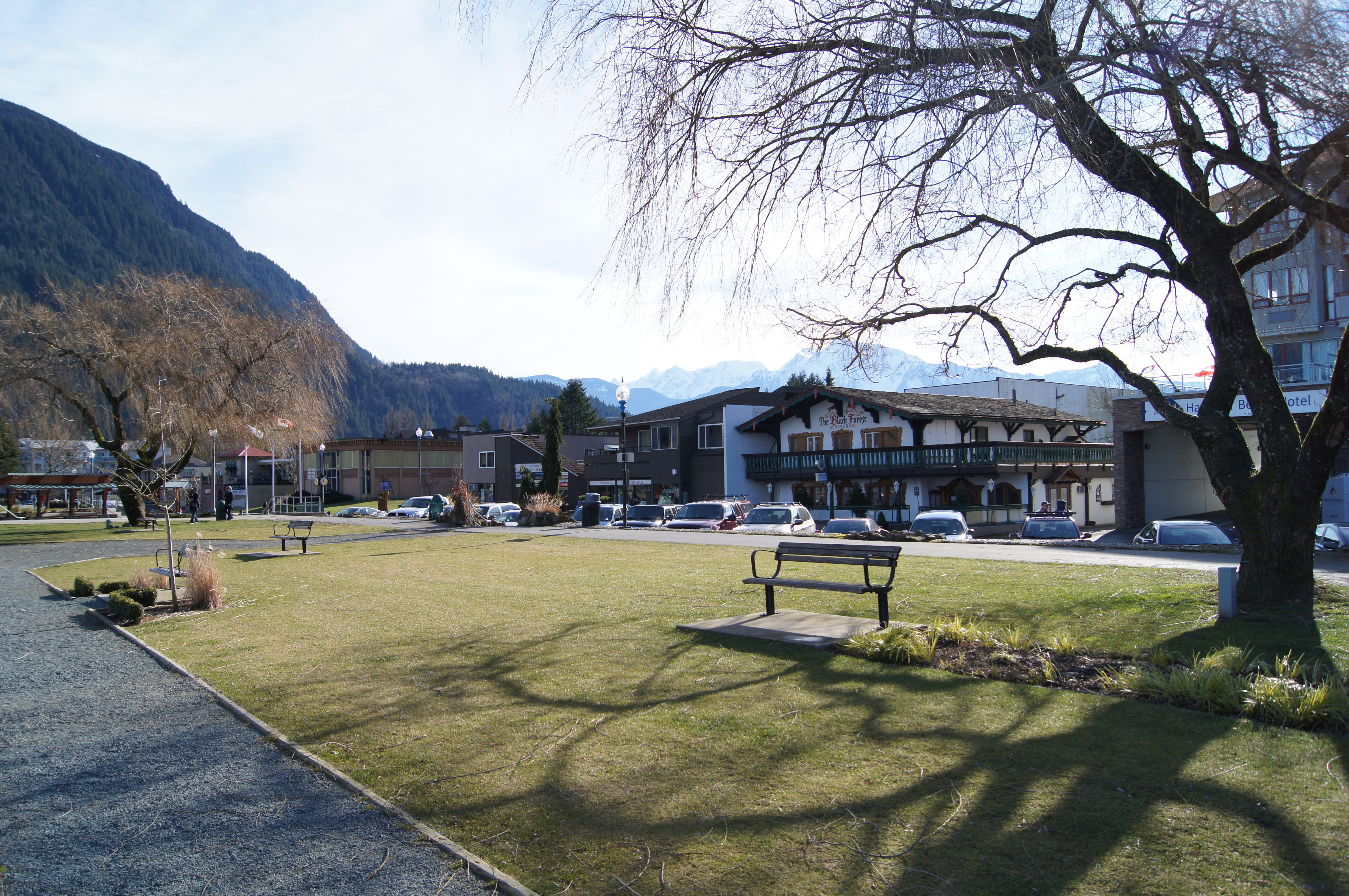 Waterfront of Harrison Hot Springs, BC facing Harrison Lake.